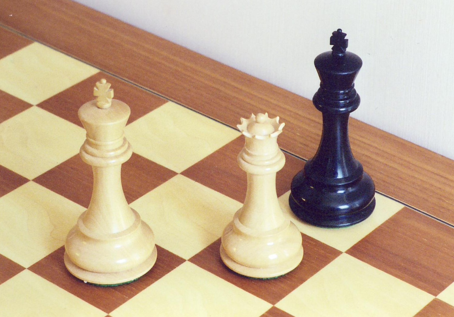 Photo taken by myself. Incidentally, this is the 4" Marshall set from the House of Staunton. The black pieces are "ebonized" - stained black to simulate ebony wood. The white pieces are boxwood. I chose this set because the pieces are almost identical to the Jaques of London millennium set, and Jaques is the originator of the standard Staunton chess set design for chess pieces. Category:Chess images